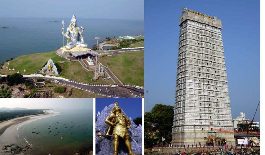 Murdeshwara temple, Beach Source and Author : Manjunath Doddamani, Gajendragad / Hubli, Karnataka(North), India.